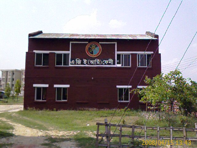 Only surviving building from World War II Airfield, used as site office by MES (Military Engineer Services). Feni Girls Cadet College, Feni District, Bangladesh